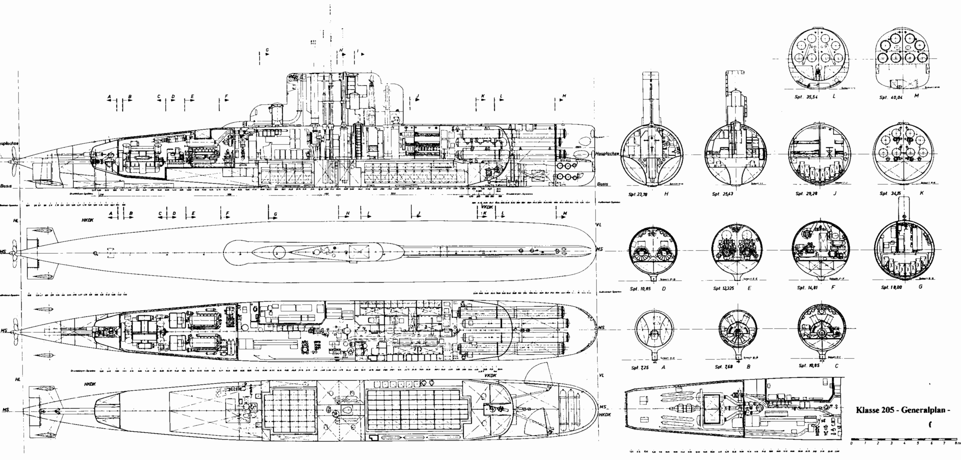 The engineering plans of the Type 205 submarine.